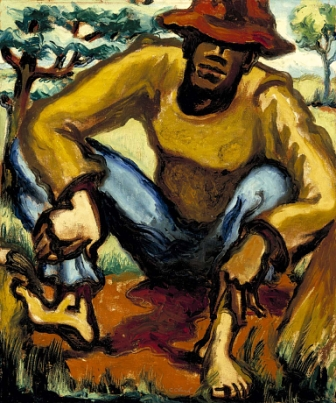 "Resting" is an oil painting on canvass done in 1944 by Claude Clark. It is part of the Smithsonian American Art collection in Washington, DC.